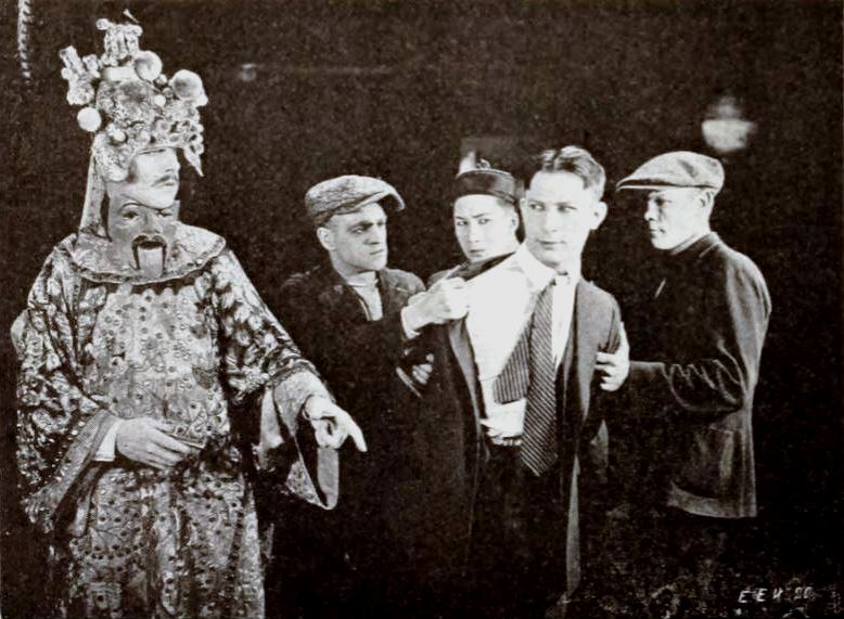 Still from the American film serial The Evil Eye (1920) with Stuart Holmes as the mandarin and Benny Leonard, on page 74 of the April 24, 1920 Exhibitors Herald.